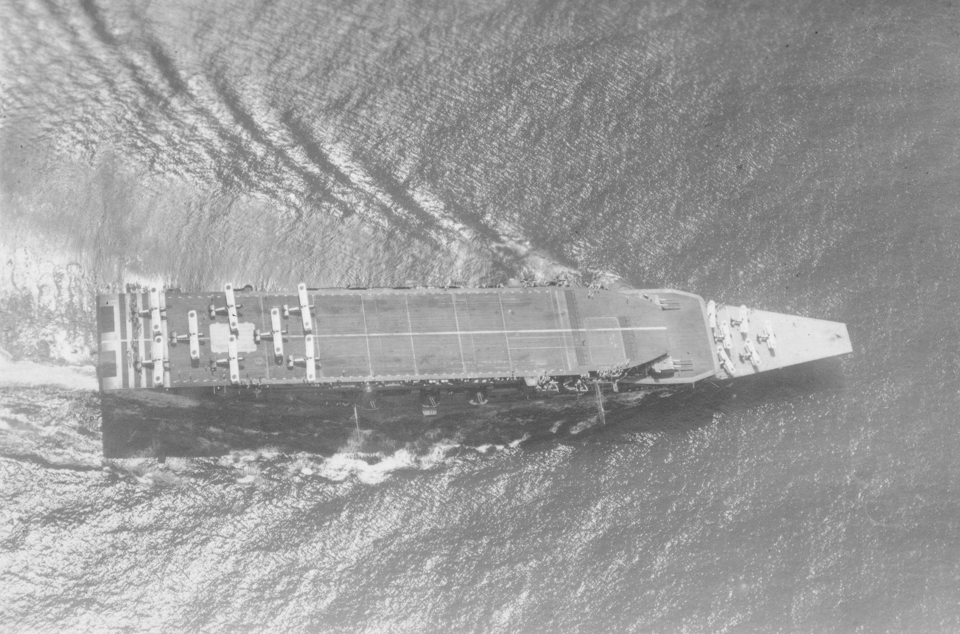 Imperial Japanese Navy aircraft carrier Kaga conducts air operations training. On the upper deck are Mitsubishi B1M Type 13 bomber aircraft and Nakajima A1N Type 3 fighters are on the lower deck.